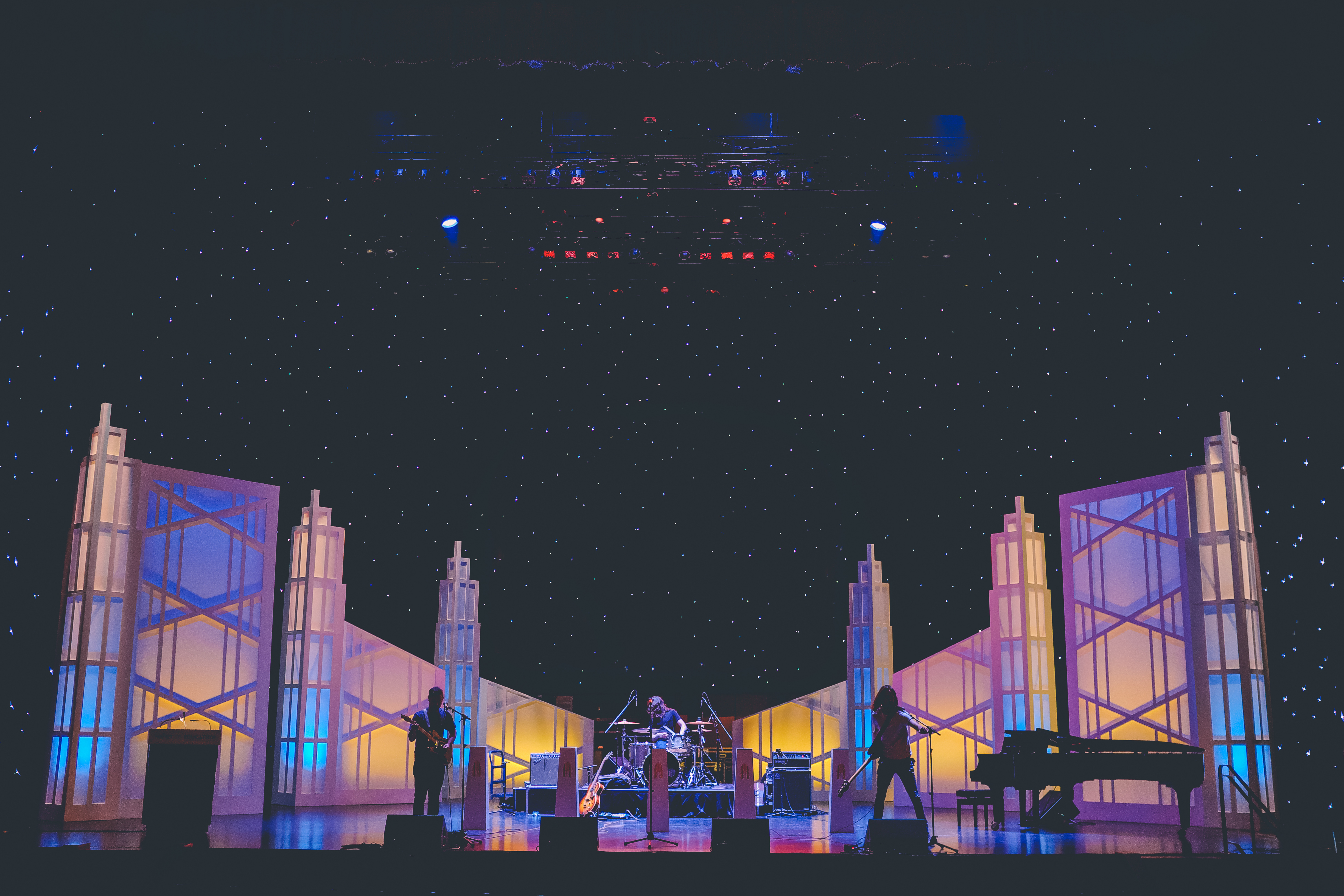 The Smith Center, Las Vegas, United States